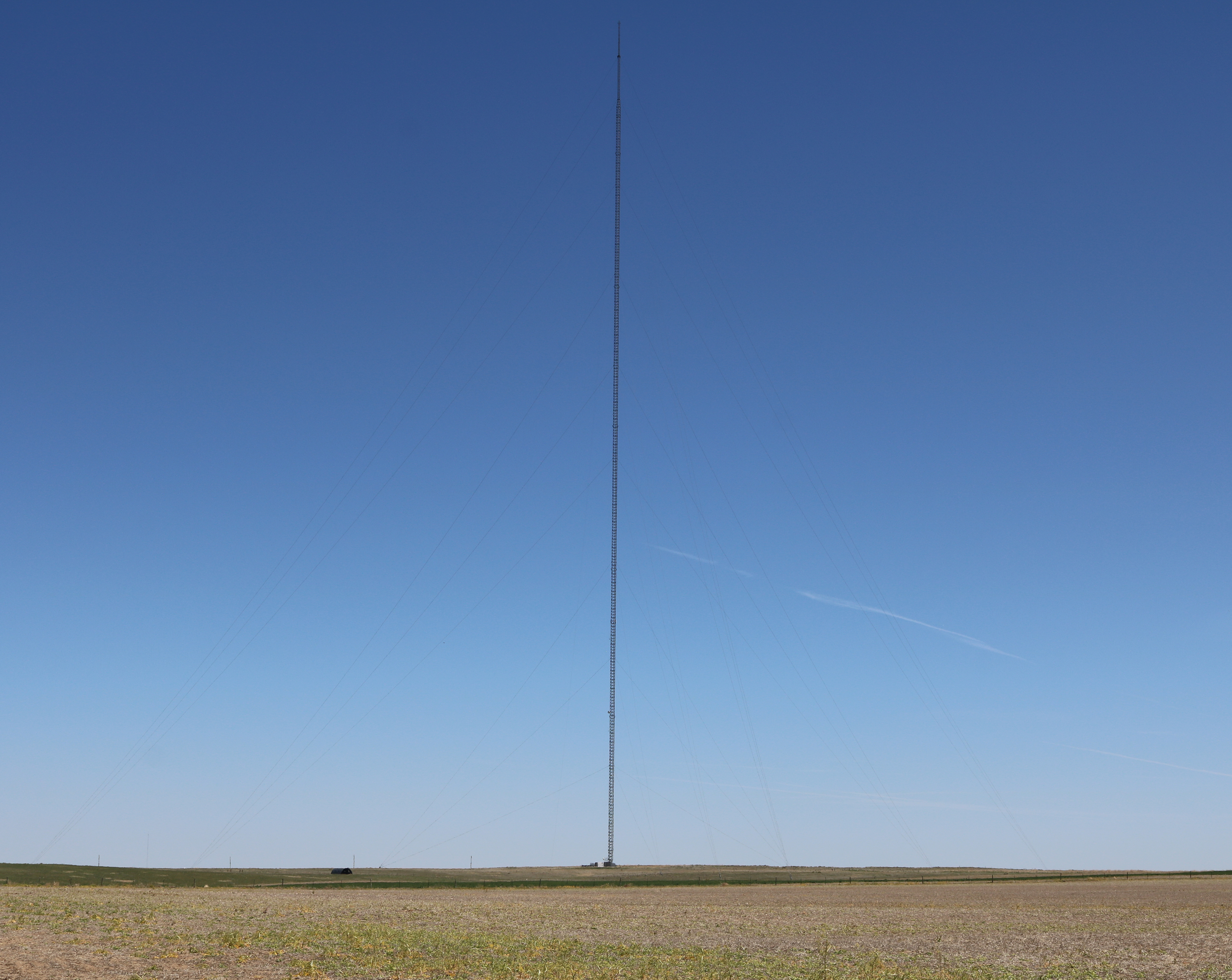 The Hoyt Radio Tower, located near Leader, Colorado in eastern Adams County.